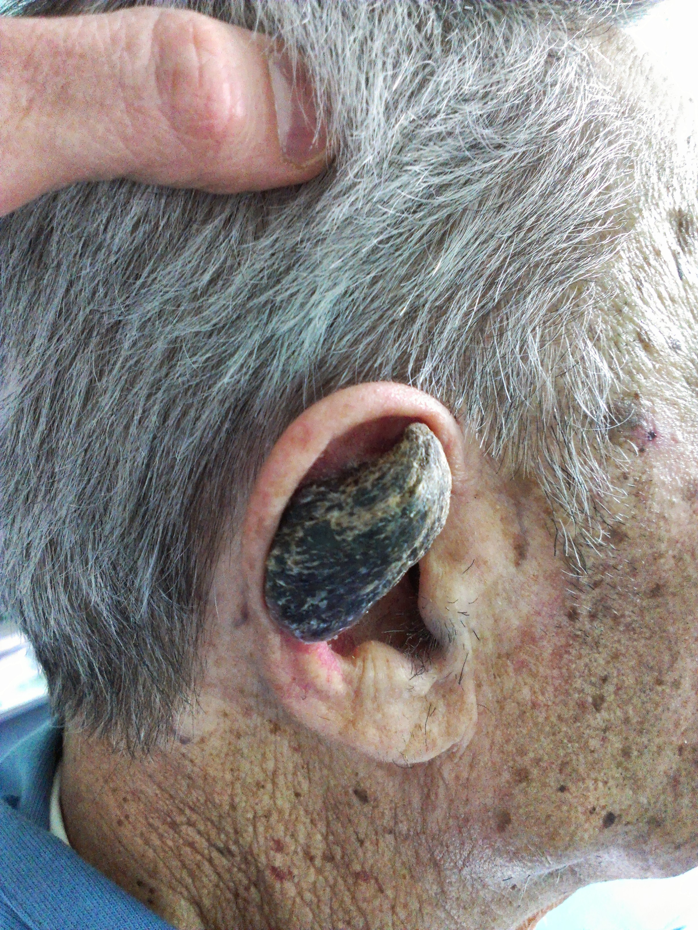 Cutaneous horn located on right pinna.